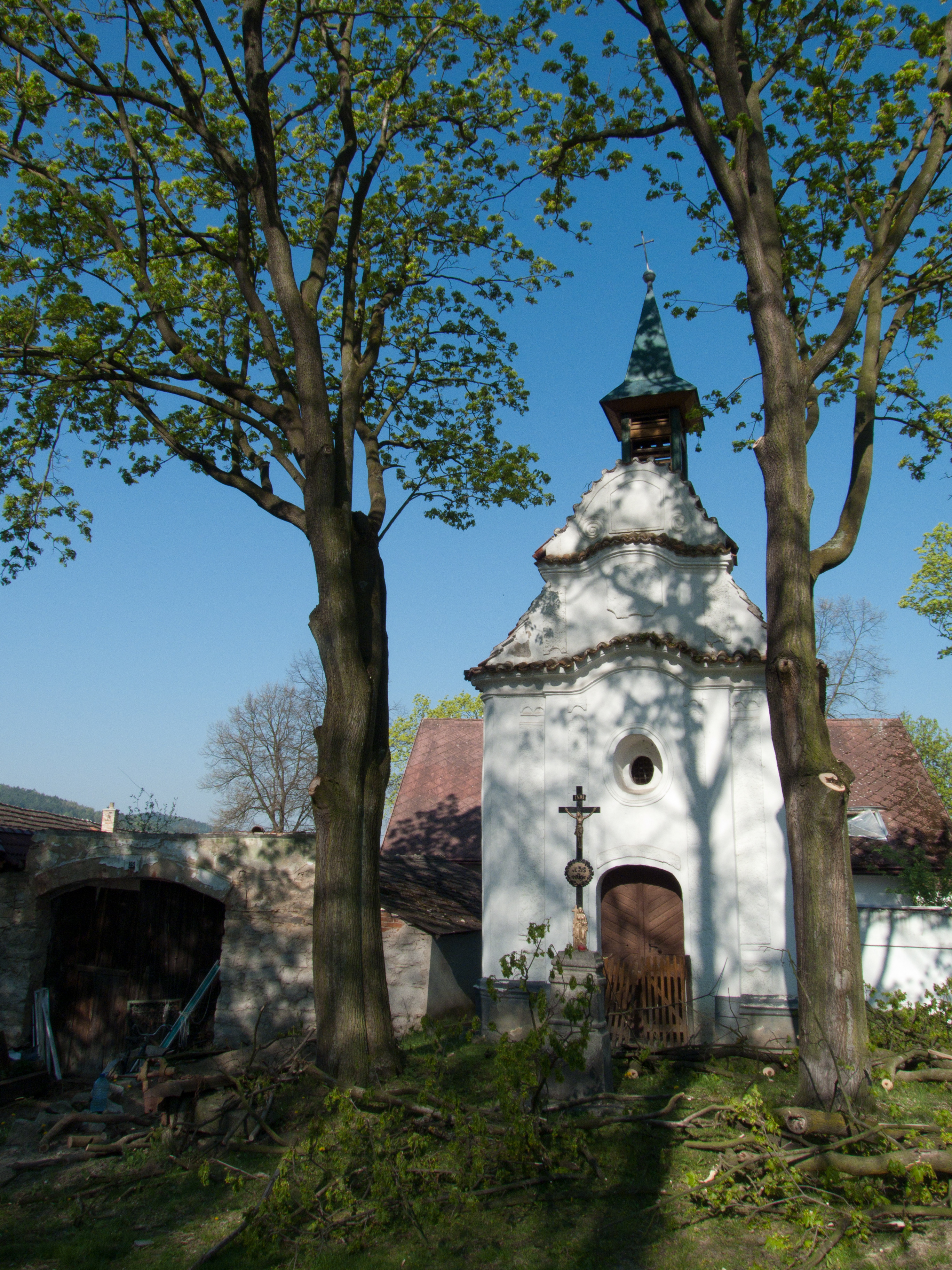 Chapel of Saint John the Baptist the village of Třešovice, Strakonice District, Czech Republic.